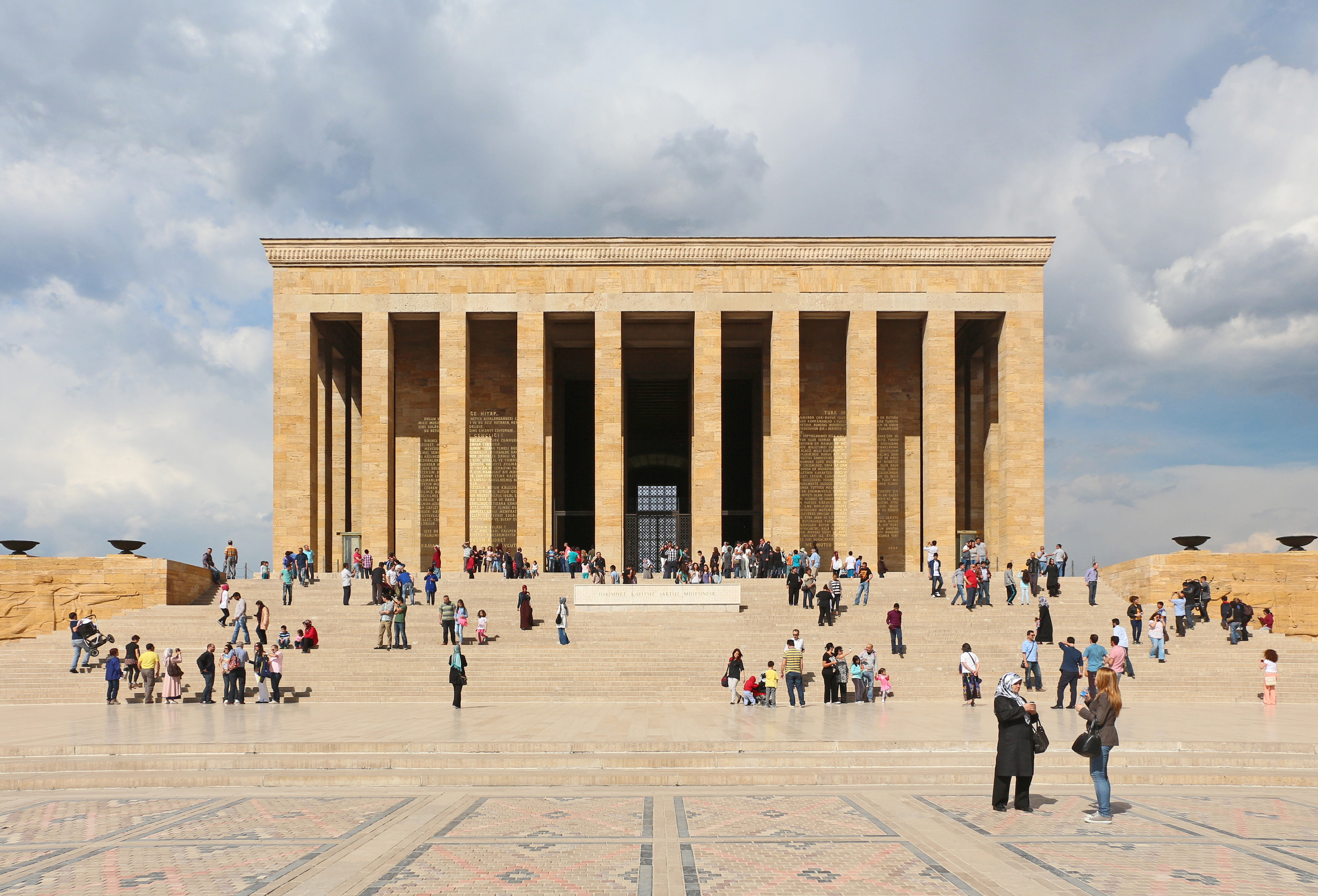 Mausoleum of Atatürk (Anıtkabir), Ankara